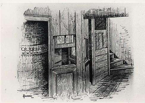 Illustration from The Illustrated London News (1884) showing the paybox in the Theatre Royal, Rochester